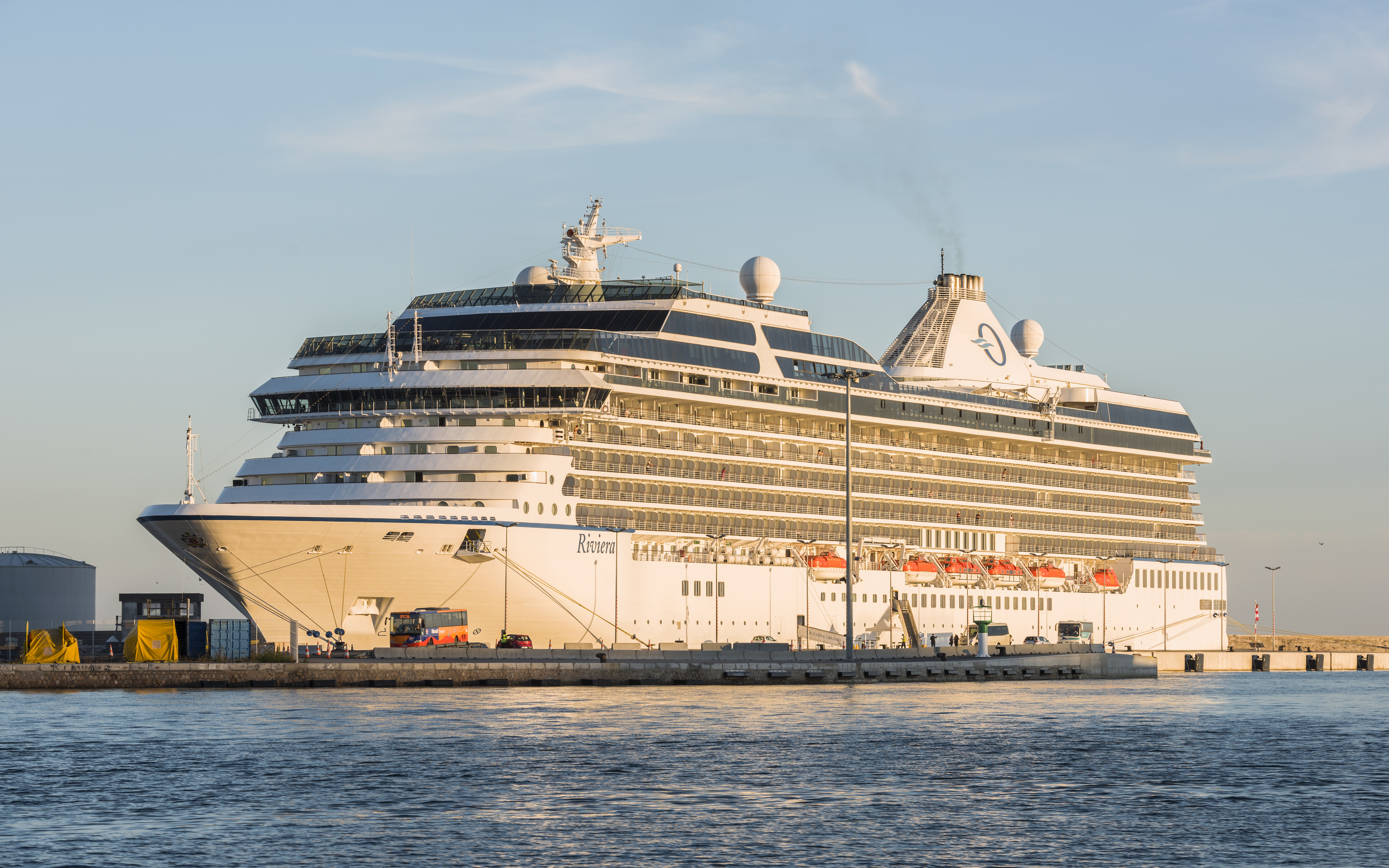 Riviera (ship, 2012) moored in the harbour of Sète, Hérault, France